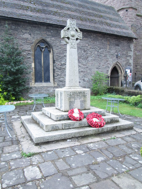 War Memorial - St Mary's Church - Bulwark